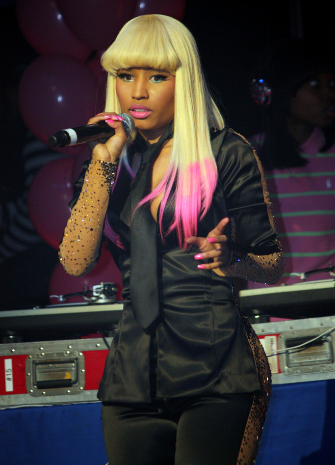 Nicki Minaj Thanks Concert Hammerstein Ballroom-NYC-11.26.10 Shot in manual-Canon Rebel XSi using a 55-250mm canon lens. No photoshop.